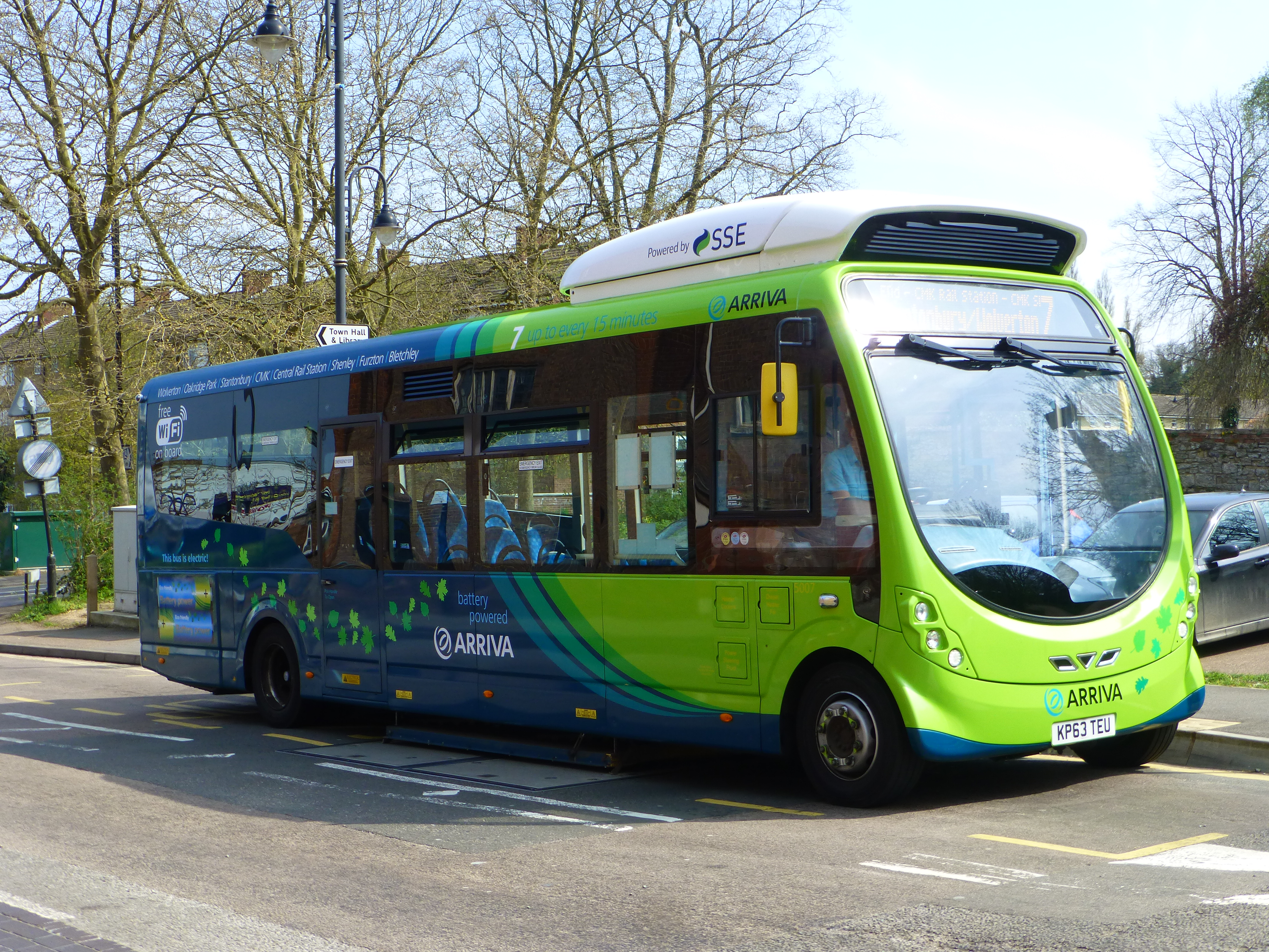 An Arriva The Shires electric bus on route 7, using wireless induction to recharge its batteries at the Agora bus stop in Wolverton, Buckinghamshire. The bus is a Wright StreetLite EV, registration mark KP63 TEU, fleet number 5007.